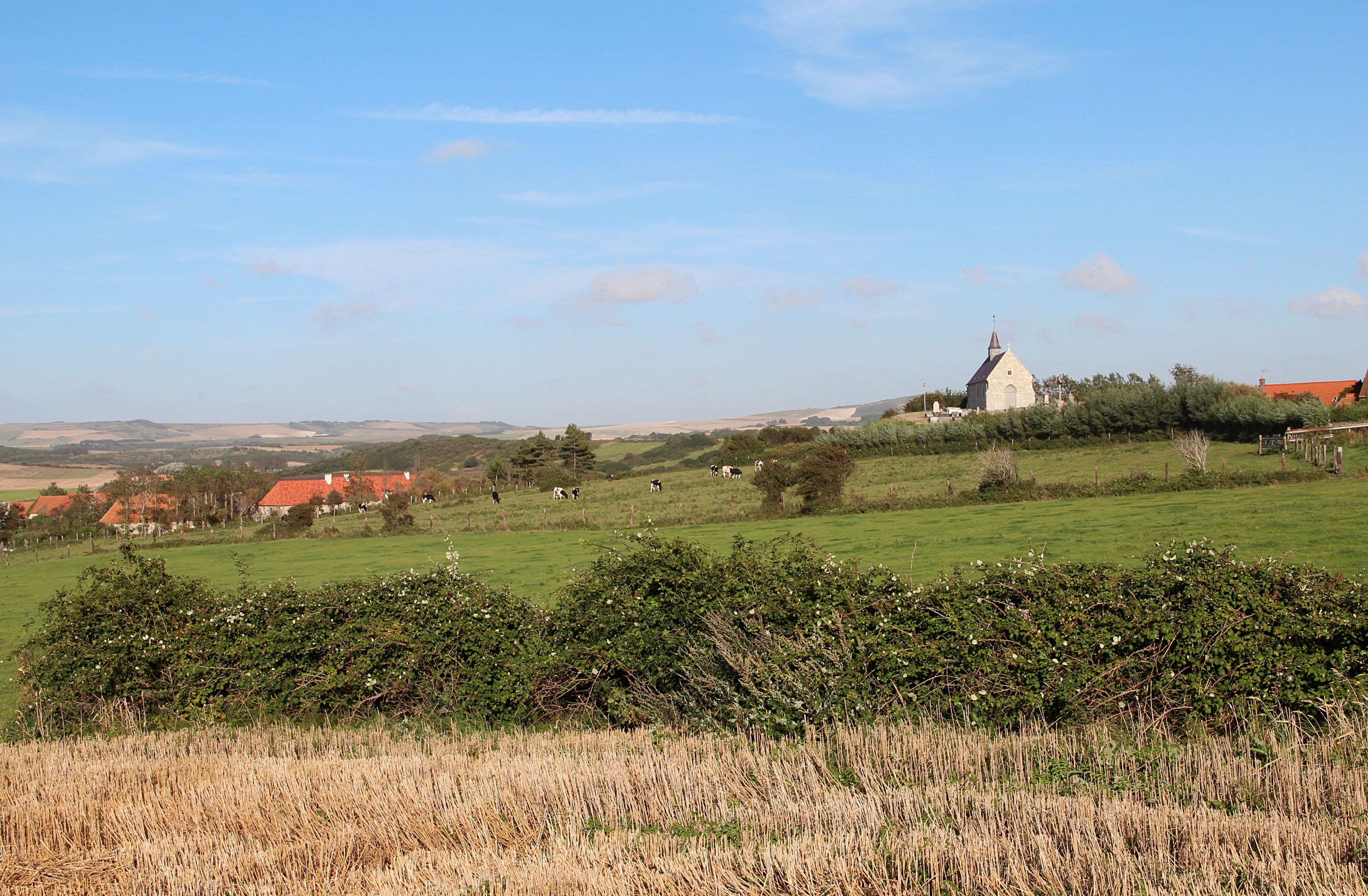 Tardinghen (Pas-de-Calais), France. – Landscape seen from the route du Châtelet.